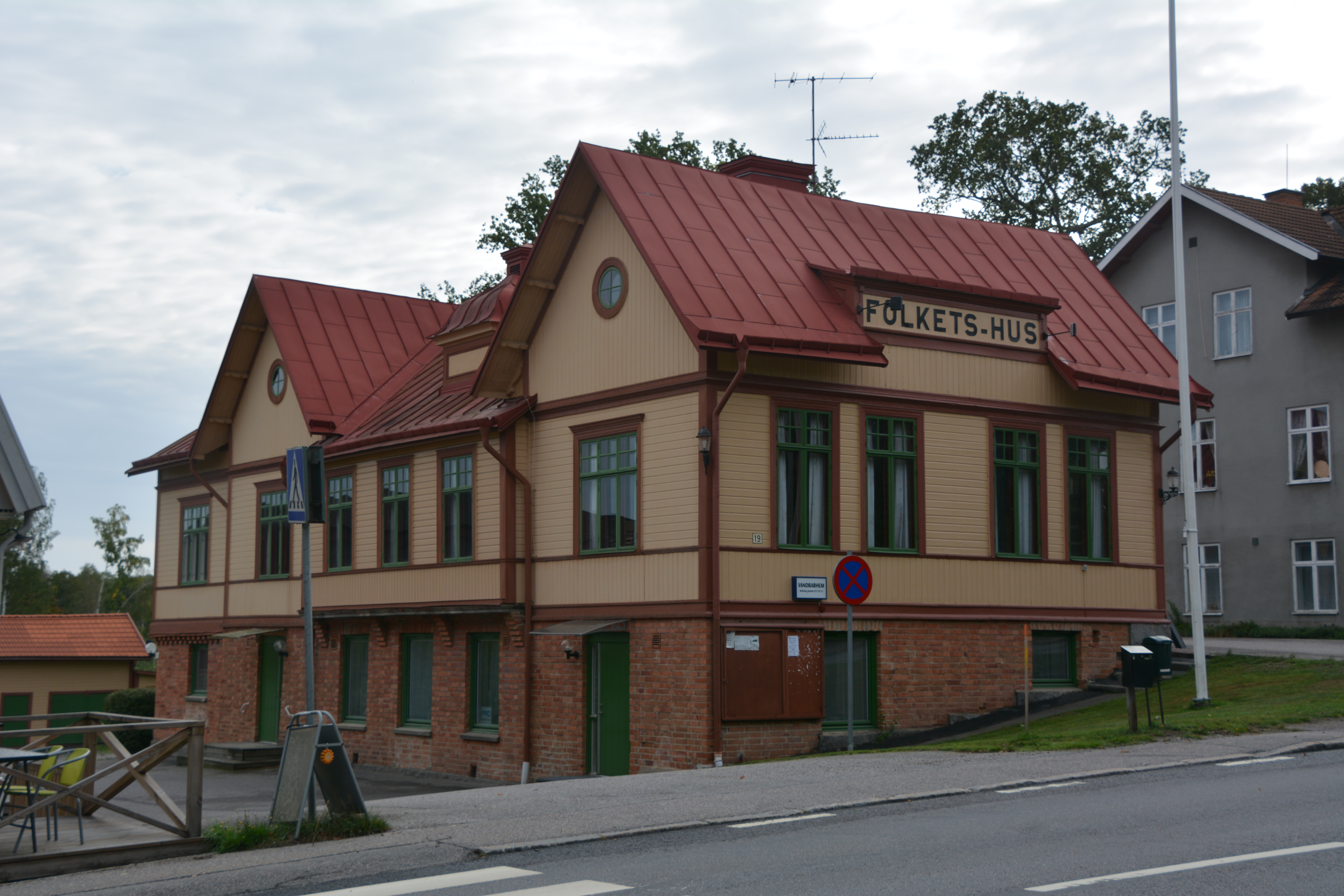 Folkets hus, Landsvägsgatgan 19 i Sparreholm, byggt 1904